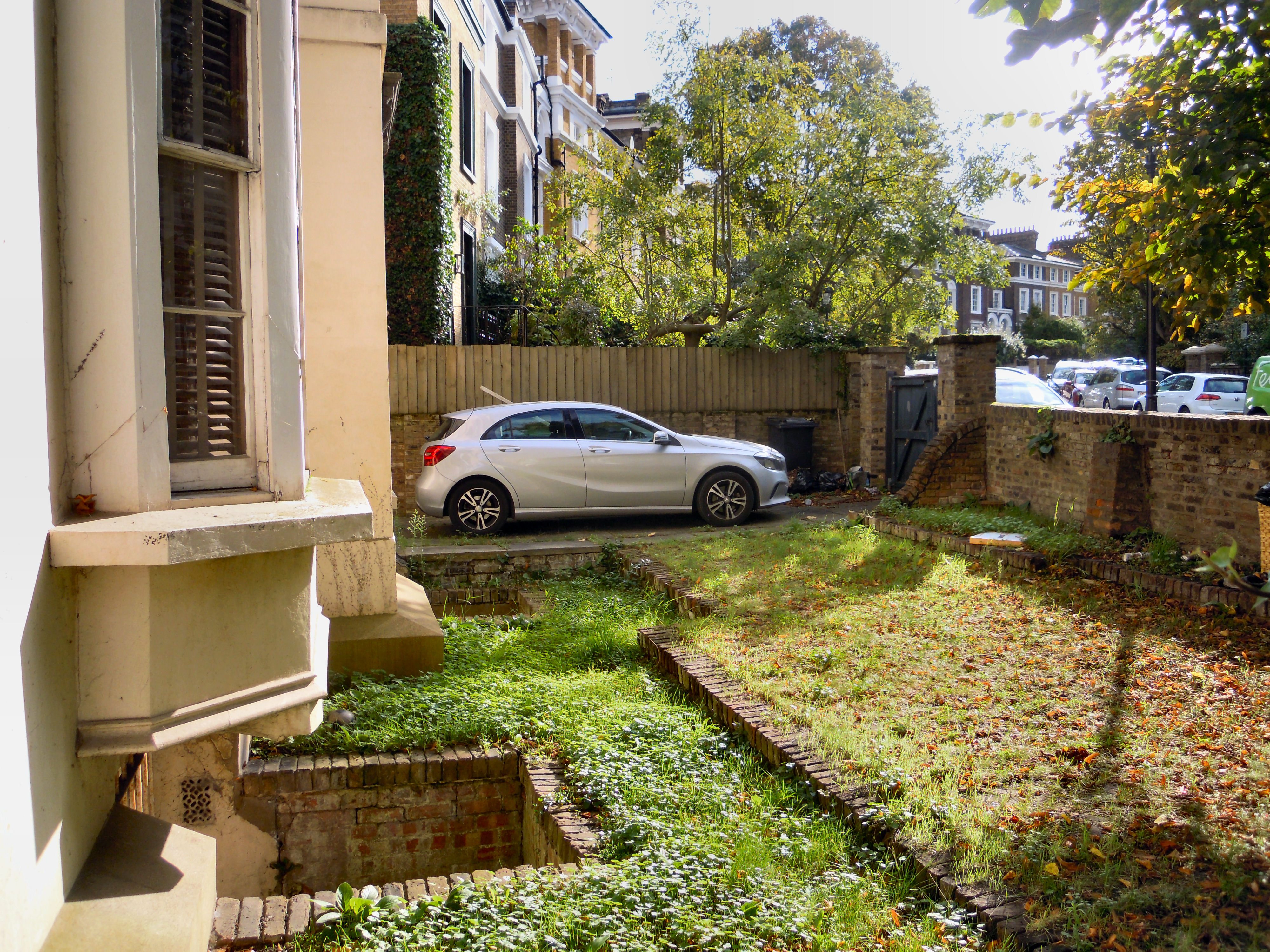 The front garden of 23 Gloucester Crescent in Camden where for 15 years Margaret Fairchild lived in her van